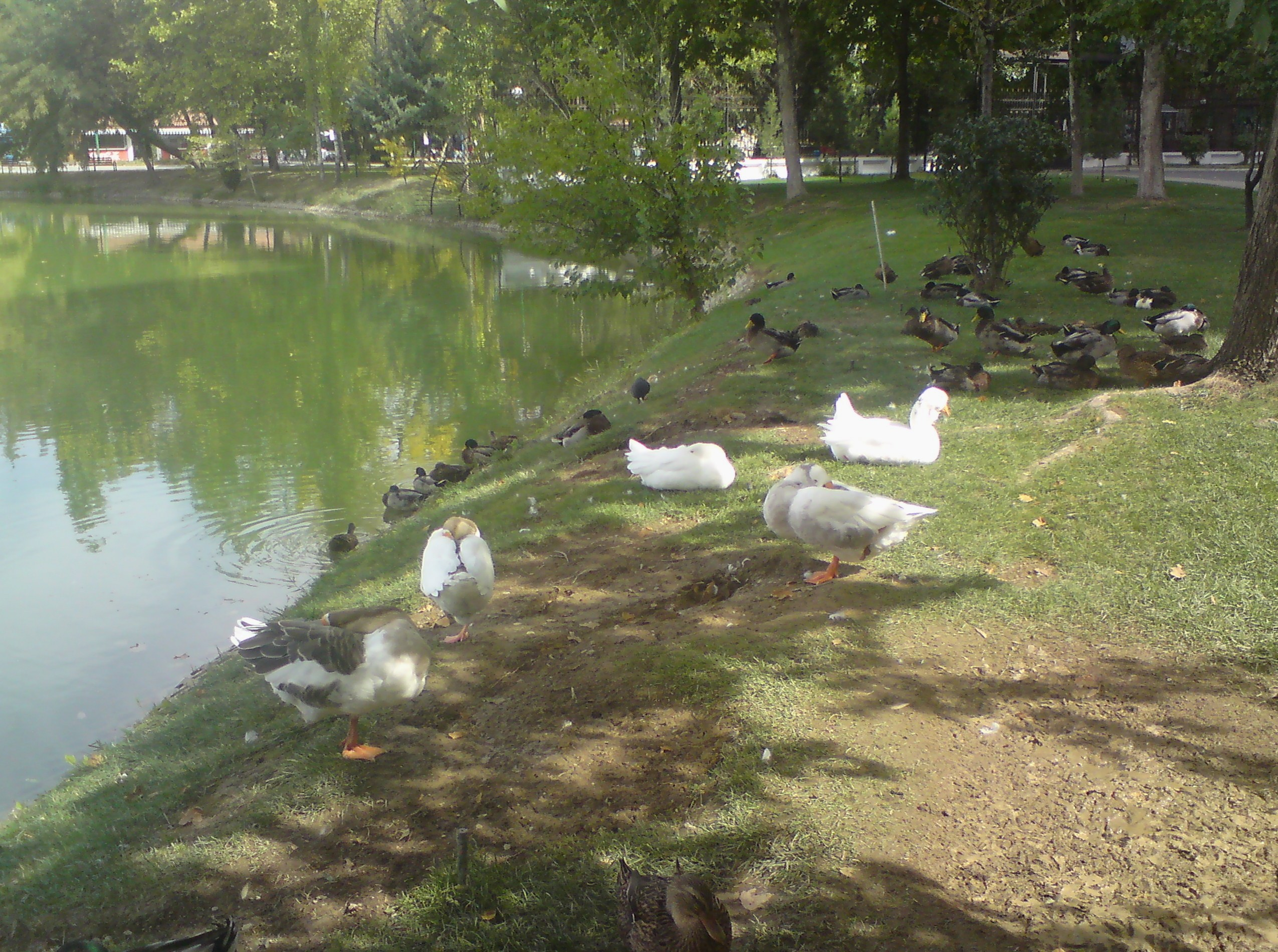 South beach of Tashkent aquapark lake. Mallards and geese